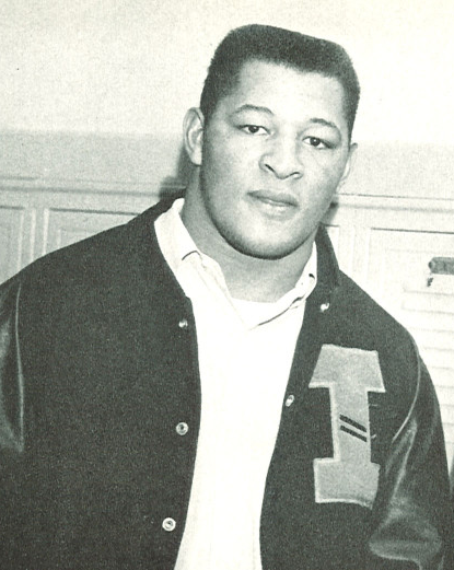 Cal Jones